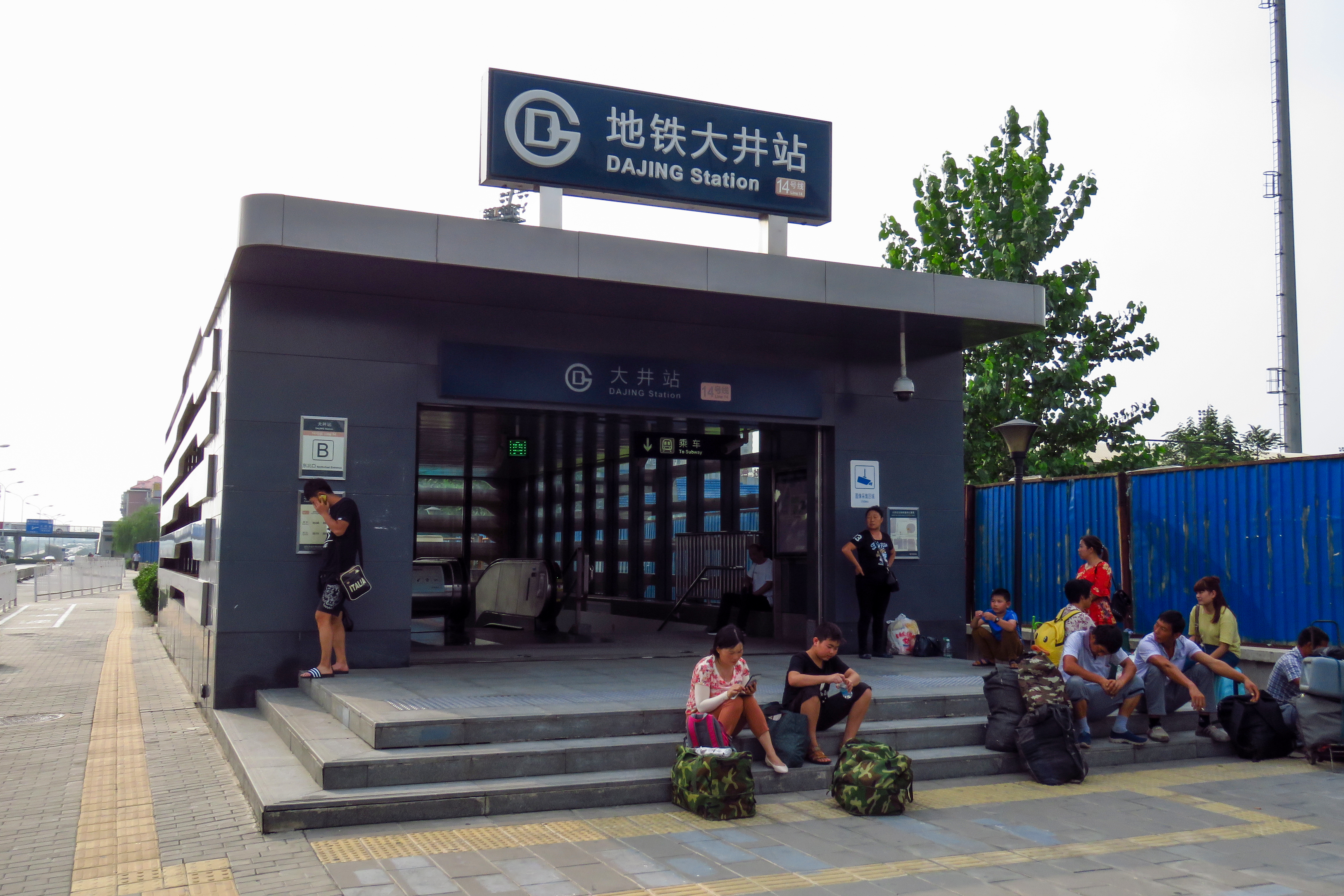 Still have to walk!